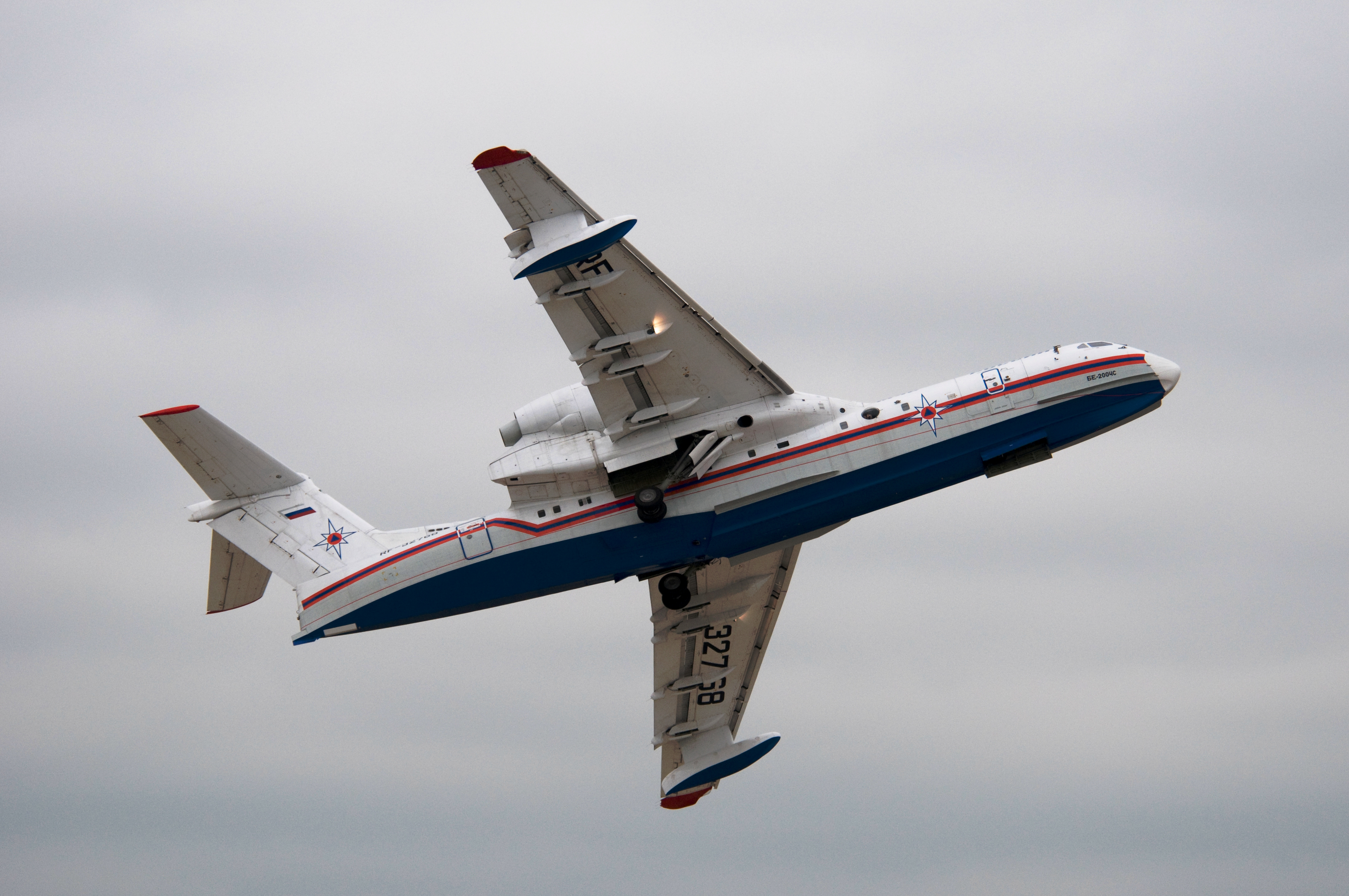 A Beriew Be-200 is taking off at the MAKS Airshow 2009.